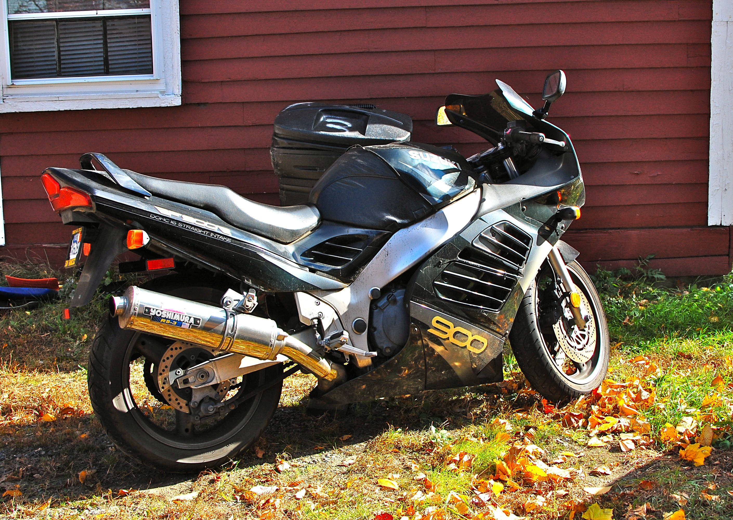 A Suzuki RF 900R seen in Massachusetts, USA.